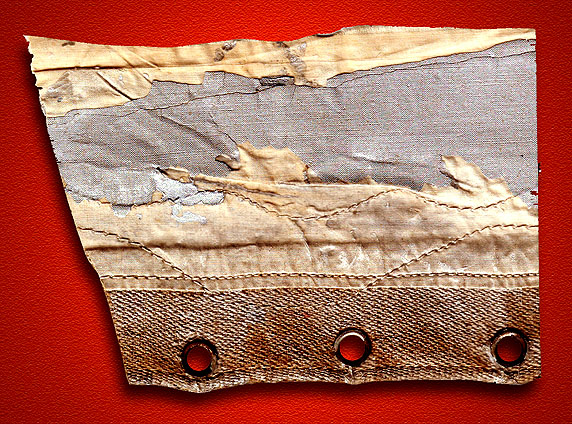 A portion of the damaged fabric skin removed from the port tail fin of the DLZ127 "Graf Zeppelin" in October, 1928, after it arrived at NAS Lakehurst on its first transatlantic flight from Germany. Source: The Cooper Collection of Zeppelin Postal History